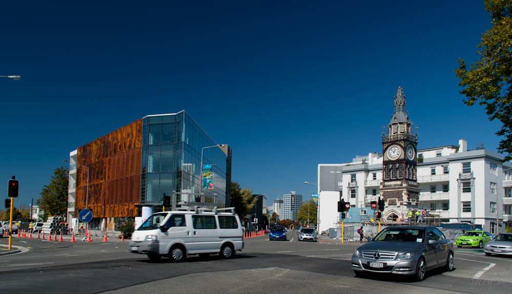 Victoria St on a walk around the city to see what has been happening while I was away on holiday 14 March 2014 Christchurch New Zealand. View along Victoria Street from Salisbury Street, with the Forsyth Barr Building in the background.